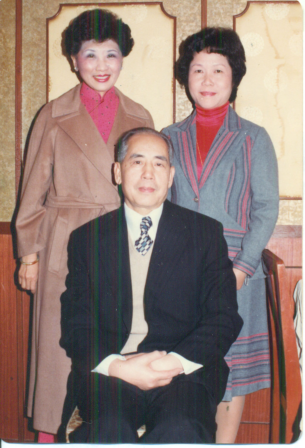 Hwang Yau-tai and Barbara Fei in Hong Kong. Photographer unknown, 1982.